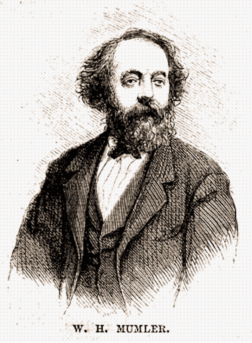 William H. Mumler, from an engraving in Harper's Magazine, May 1869